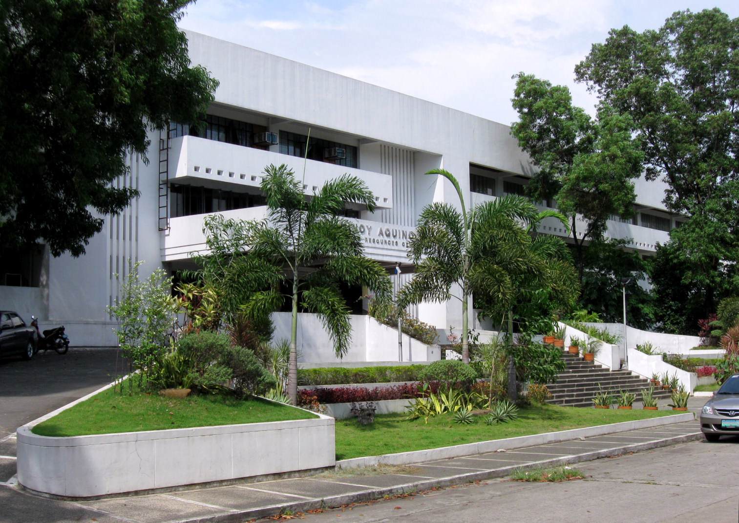 Ninoy Aquino Library and Learning Resources Center of the Polytechnic University of the Philippines, Santa Mesa, Manila, the Philippines